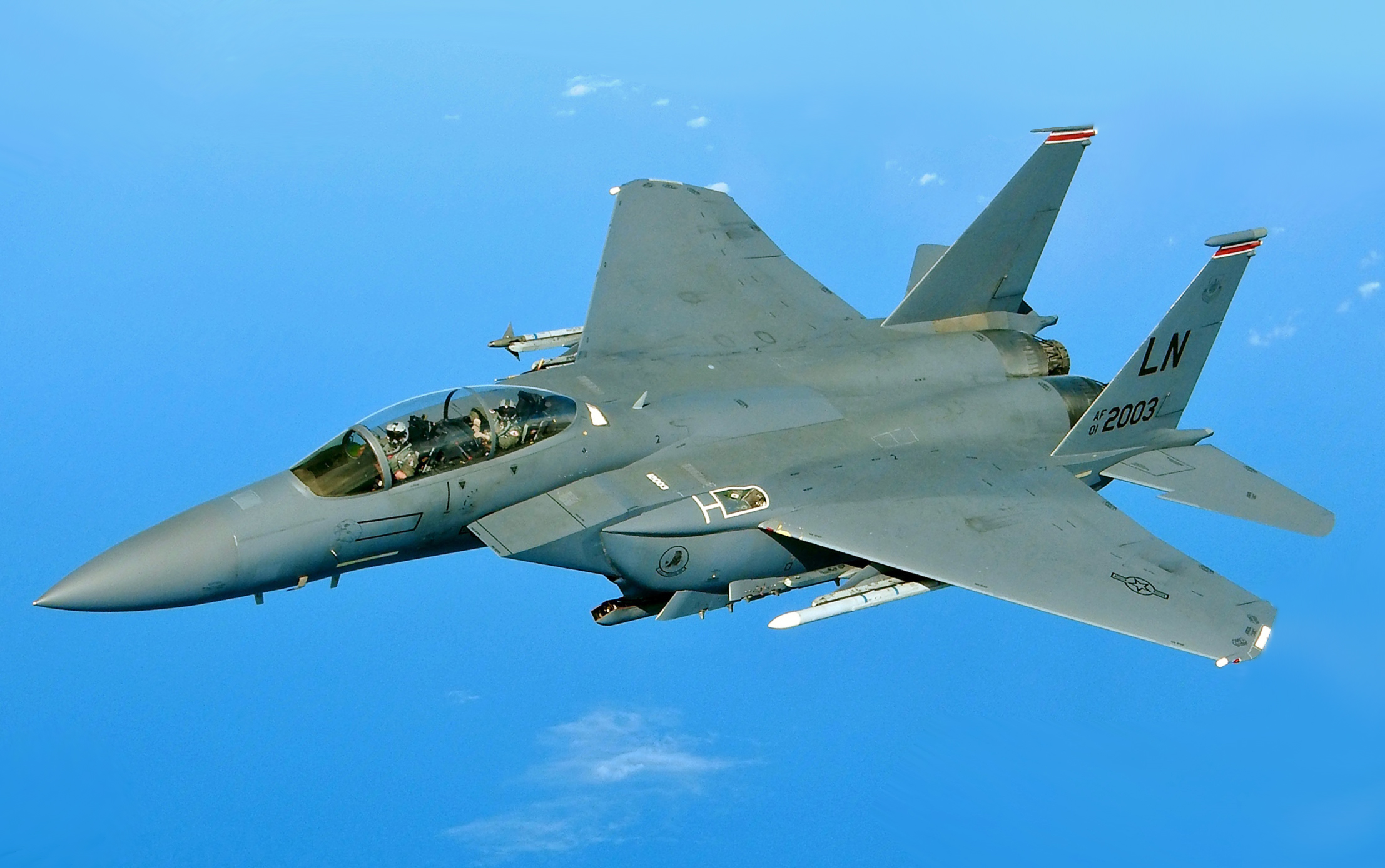 A U.S. Air Force F-15E Strike Eagle aircraft assigned to the 494th Fighter Squadron flies over the Mediterranean Sea during a training mission with the Hellenic Air Force Feb. 26, 2014. Europe-based U.S. Air Force aircraft and personnel participated in a simulated deployment, including combat training, with elements of the Hellenic Air Force.